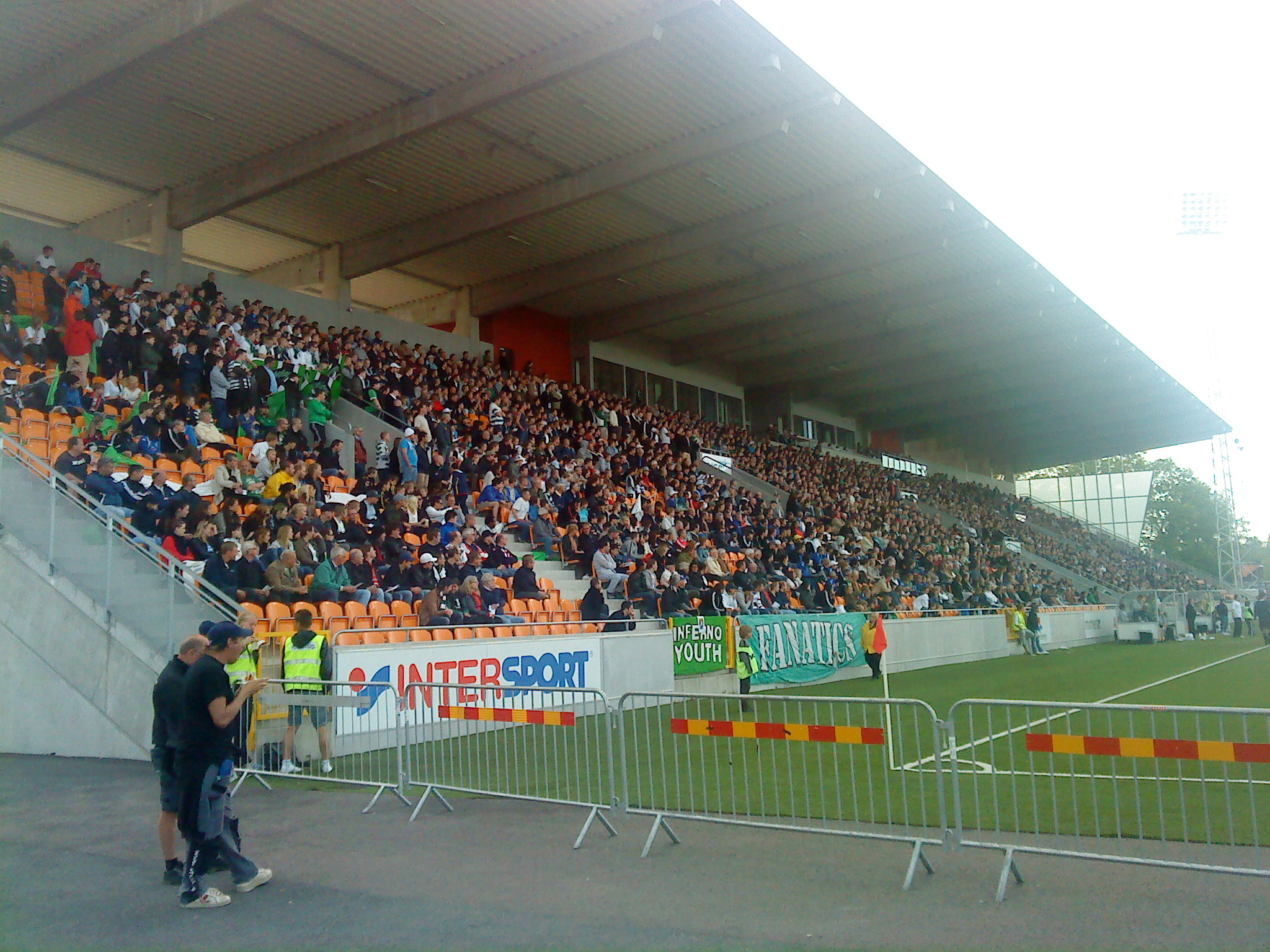 Swedbank Park, Västerås. The main stand.